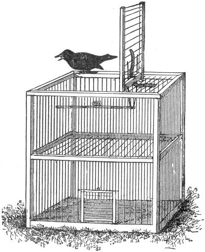 trap cage